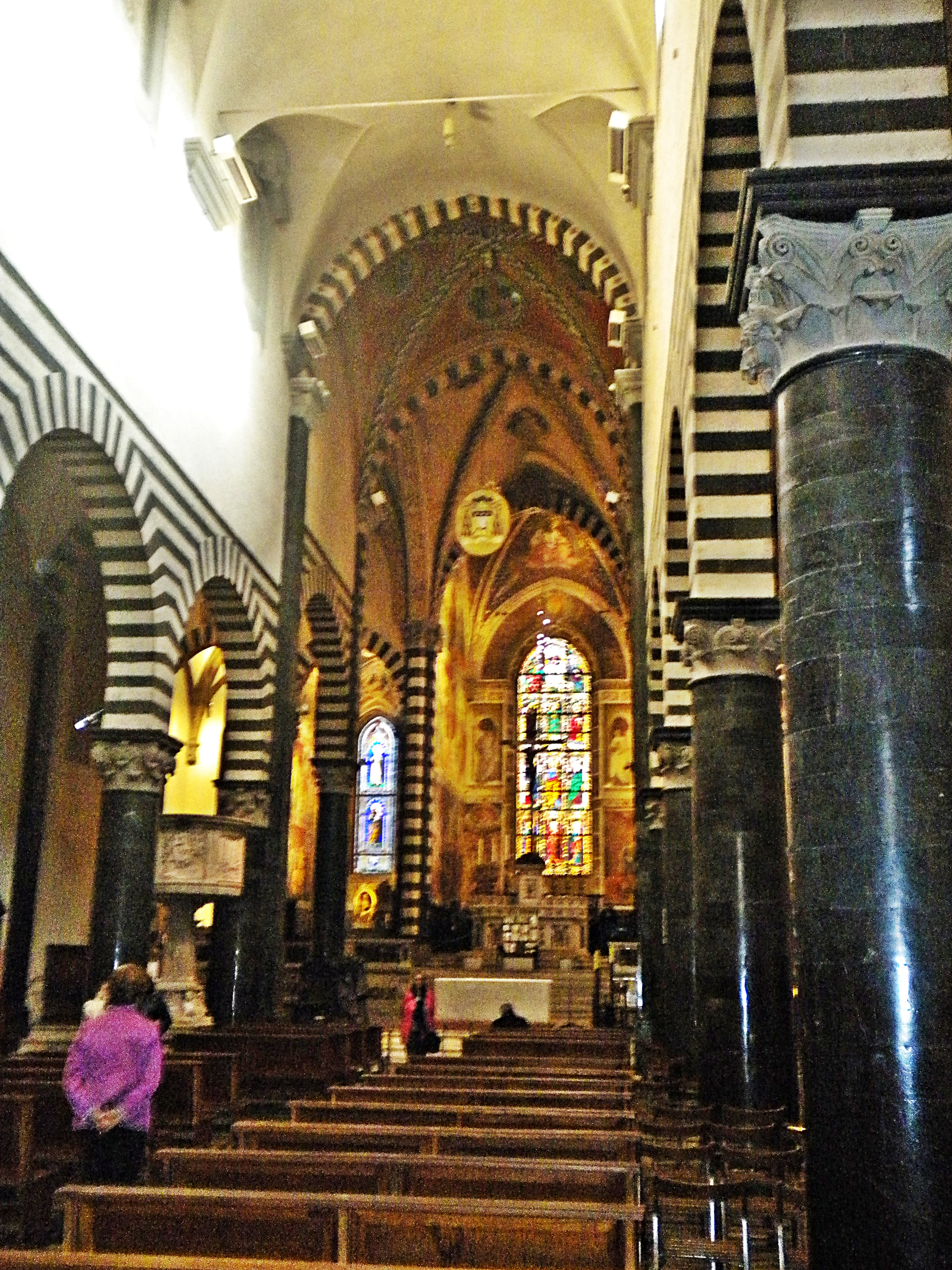 the nave